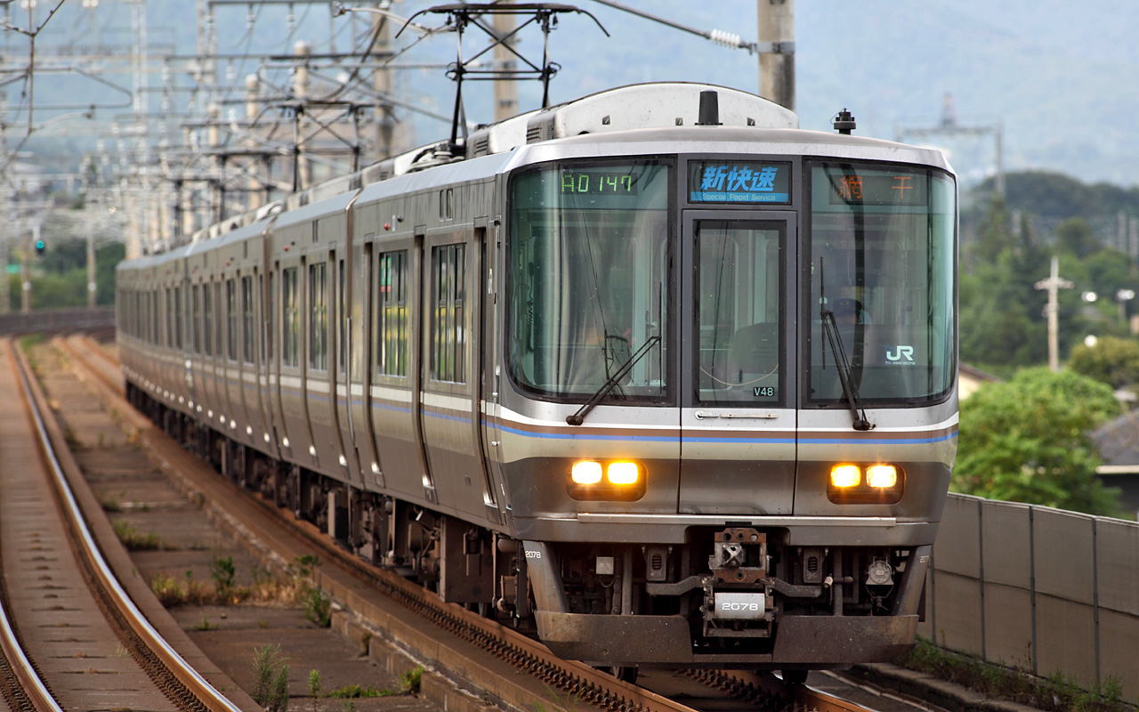 JR West 223 series EMU, at Hōrai Sta.